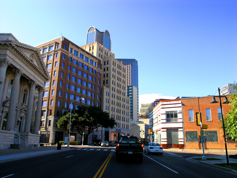 Looking north along Harwood street in the Farmers Market District of downtown Dallas, Texas, USA